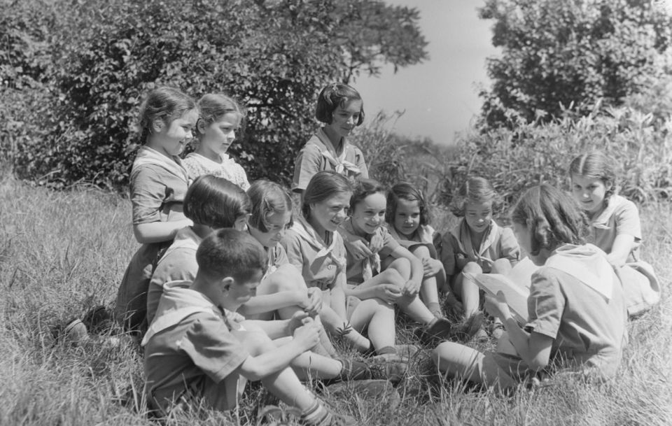 Children of La Familiale camp sitting in the grass around a monitor that makes them play. The camp is located at 8818, Notre-Dame Street in Montreal.